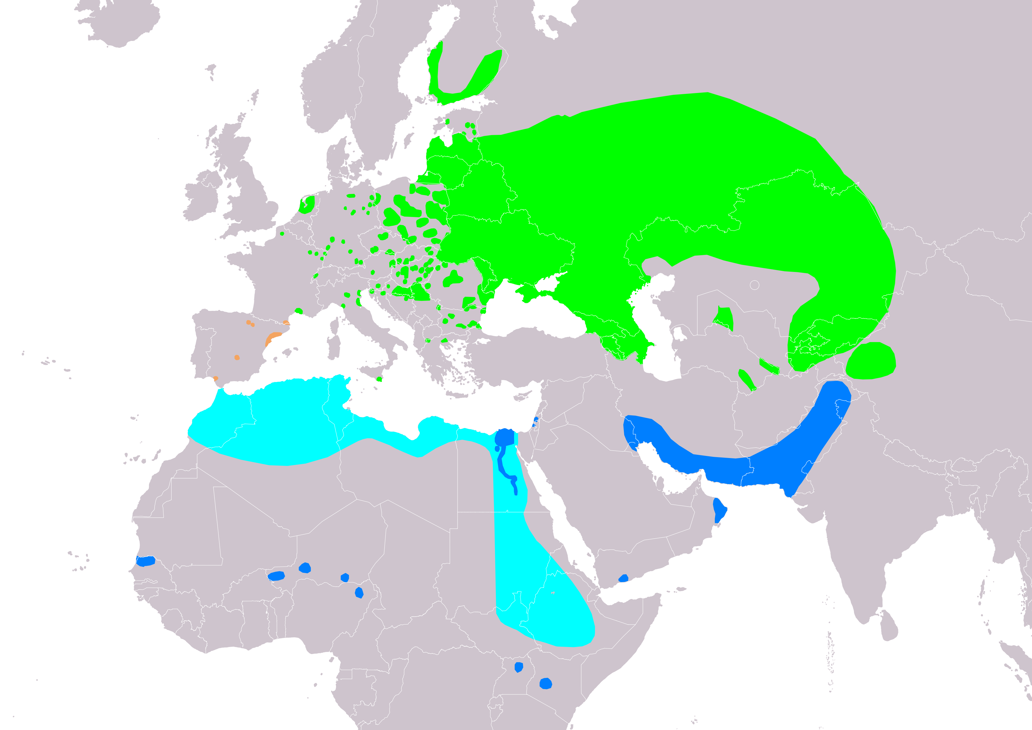 distribution map of little crake (Porzana parva) according to IUCN version 2019.2 ; key: Legend: Extant, breeding (#00FF00), Extant, passage (#00FFFF), Extant, non-breeding (#007FFF), Extant (seasonality uncertain) (#F4A460)